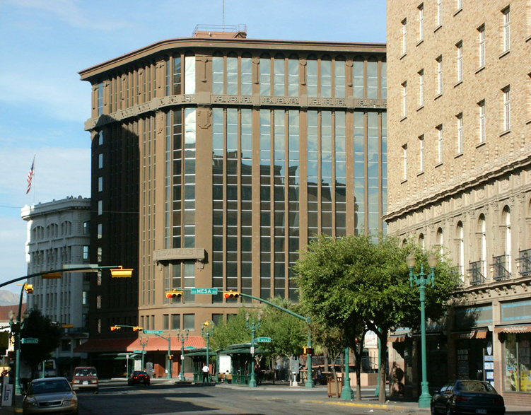 The Anson Mills Building in downtown El Paso, Texas. Designed by Trost & Trost, and built in 1911. Facade windows were subsequently altered.